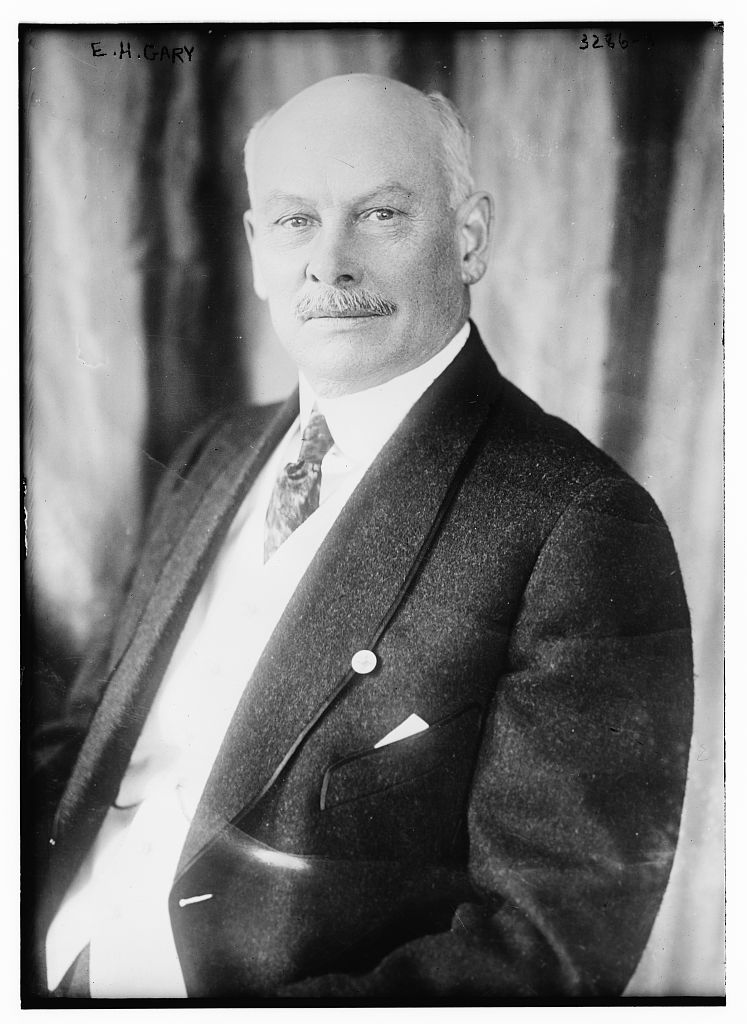 Elbert Henry Gary circa 1915